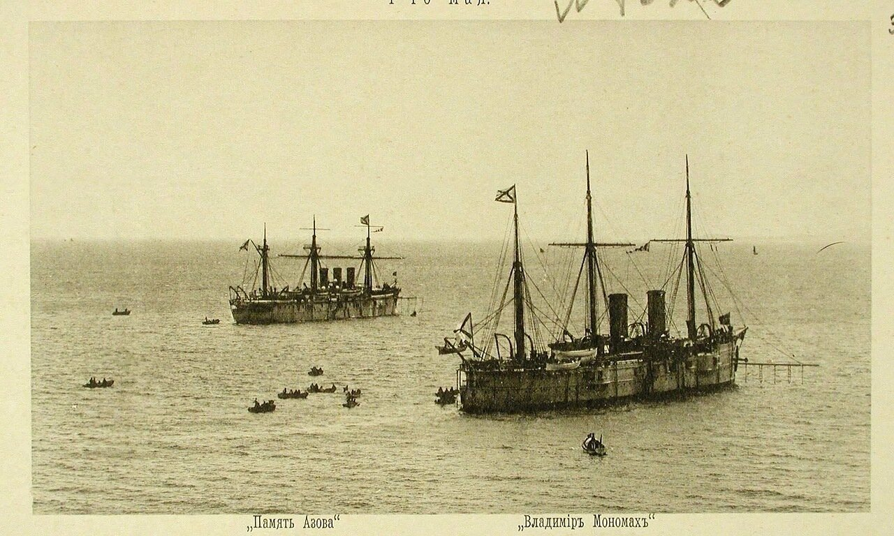 Imperial Russian cruiser Vladimir Monomakh and Pamyat' Azova in Zhifu, 1895.